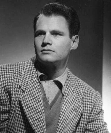 Adam Williams in Without Warning! - publicity still (cropped)